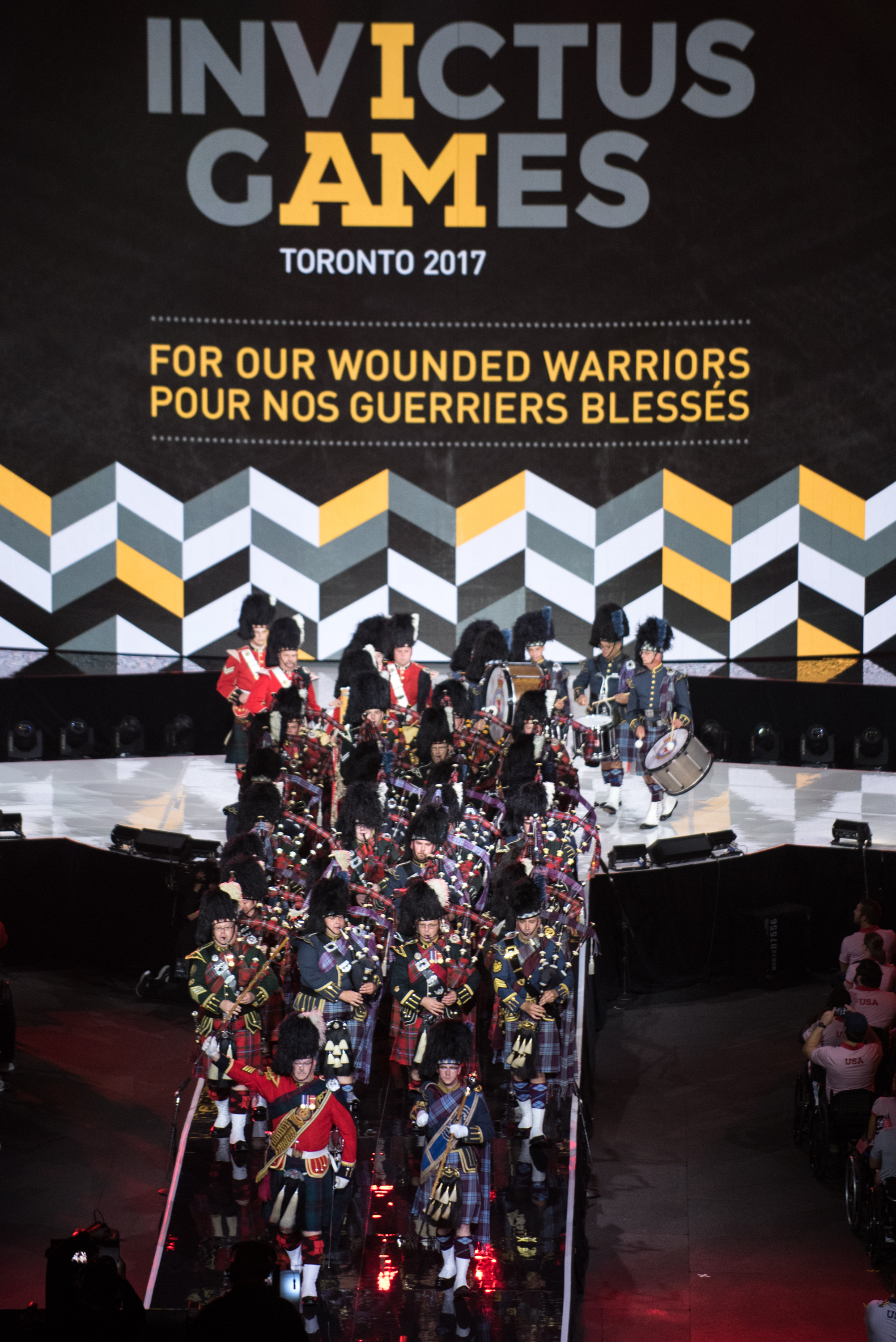 Members of the 48th Highlanders of Canada Pipes and Drums and the 400 Squadron Pipes and Drums perform during the Opening Ceremony of the 2017 Invictus Games at the Air Canada Centre in Toronto, Canada., Sept. 23, 2017. The Invictus Games, founded in 2014 by the United Kingdom’s Prince Harry, is designed to use the power of sport to inspire recovery, support rehabilitation and generate a wider understanding of and respect for those who serve their country and their loved ones.(DoD Photo by U.S. Army Sgt. James K. McCann)